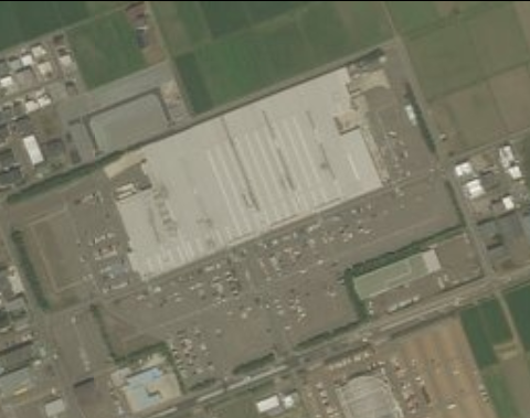 Satellite view